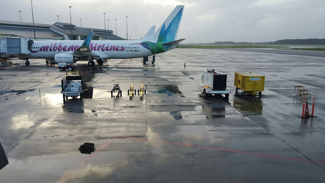 Caribbean Airlines Boeing 737-800 at Piarco International Airport.